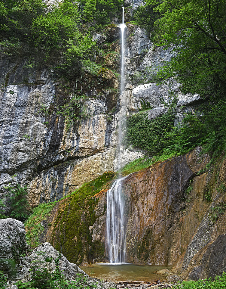 A 62 m high waterfall on the Sopota creek usually has not much water, but the whole scenery is very impressive.